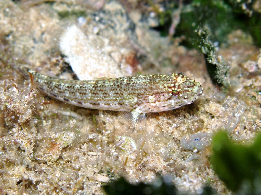 Gobius fallax